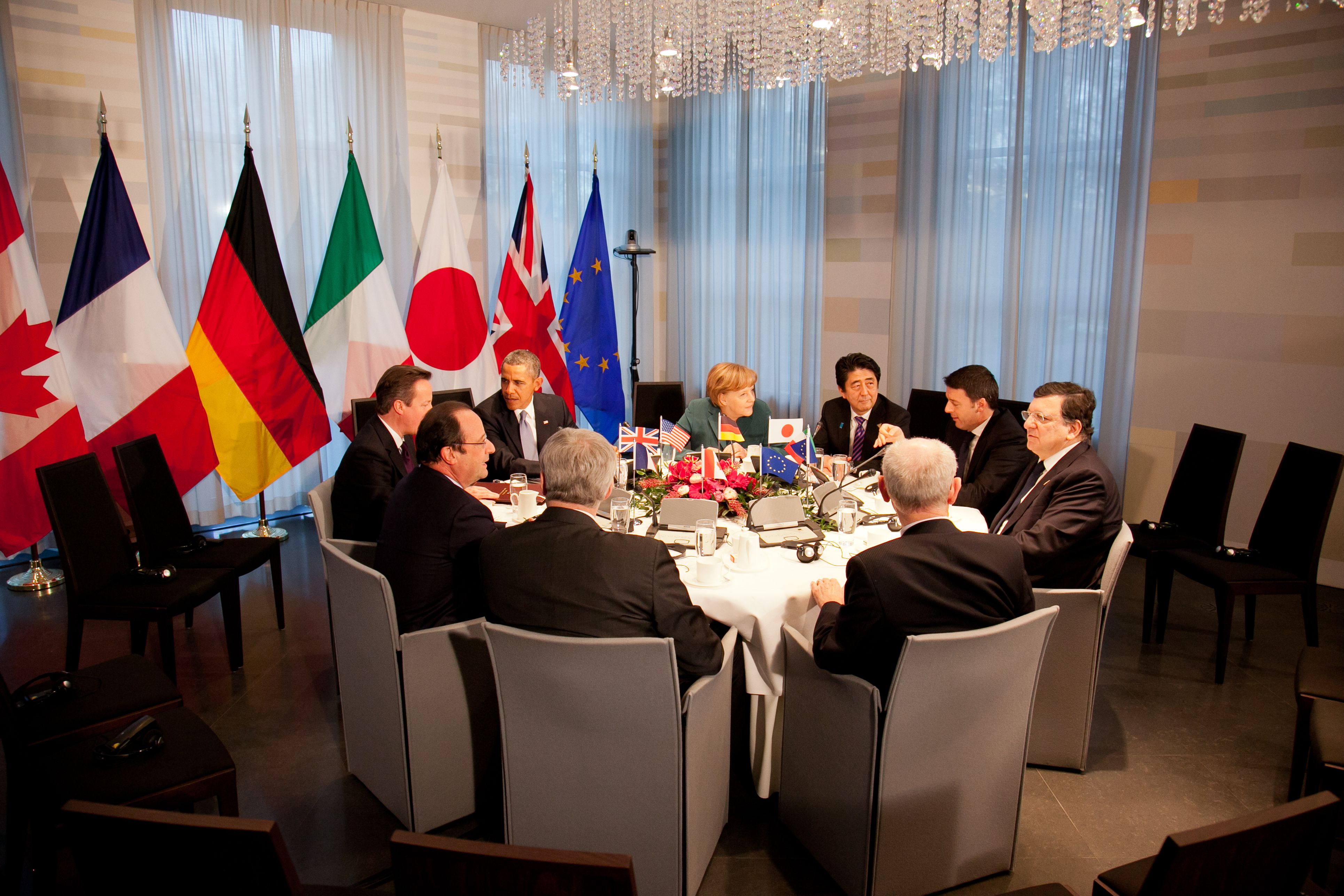 Emergency meeting of the G7 heads alongside the 2014 Nuclear Security Summit at the Catshuis in The Hague